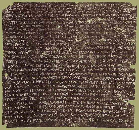 Bronze tablet found 1640 in Tiriolo, Calabria. Now at the Kunsthistorisches Museum, Vienna. Text shows the Senatus consultum de bacchanalibus, ca. 186 BC.